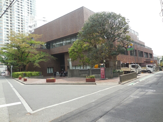 Goethe Institute Tokyo / German Cultural Center, Tokyo